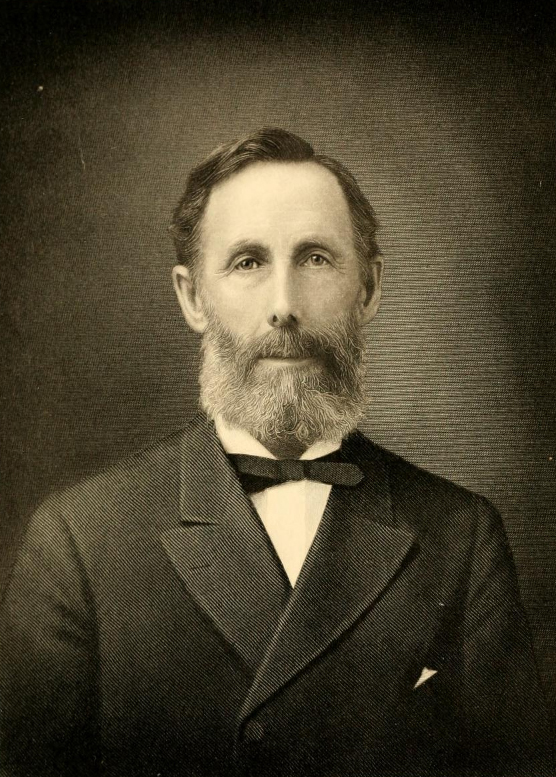 Everett Hosmer Barney (1835 - 1916), American businessman and philanthropist, who was known as a Civil War arms producer, and developer of clamp-on ice skates and roller-skates. He bequeathed his estate and an endowment to the City of Springfield, Massachusetts, to build and maintain a public park, which is now part of Forest Park.